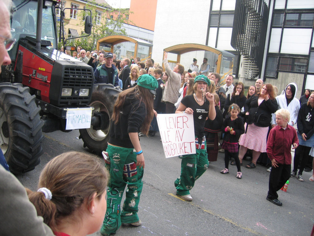 Green russ in Hamar, Norway.